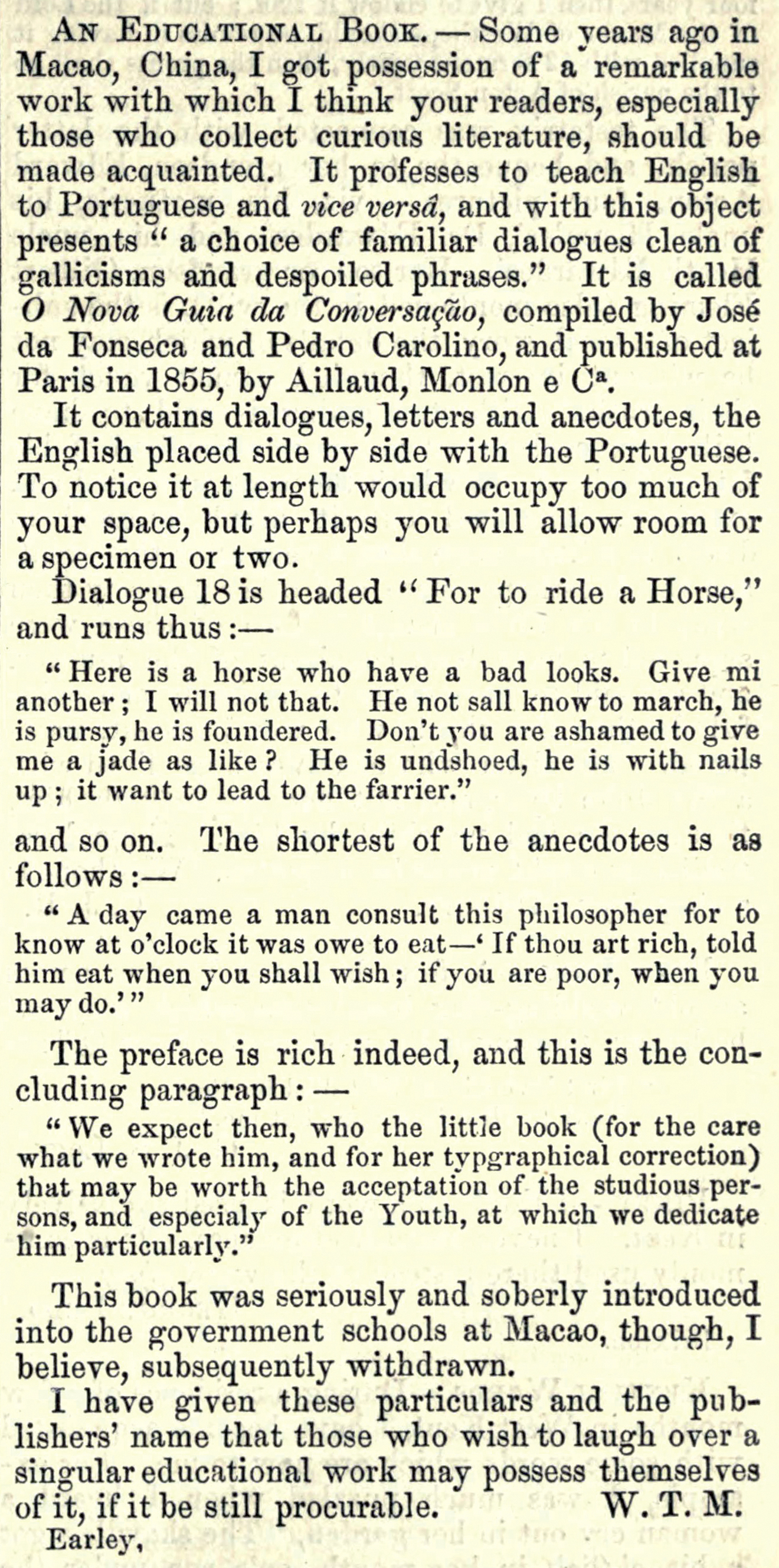 Page from Notes and Queries